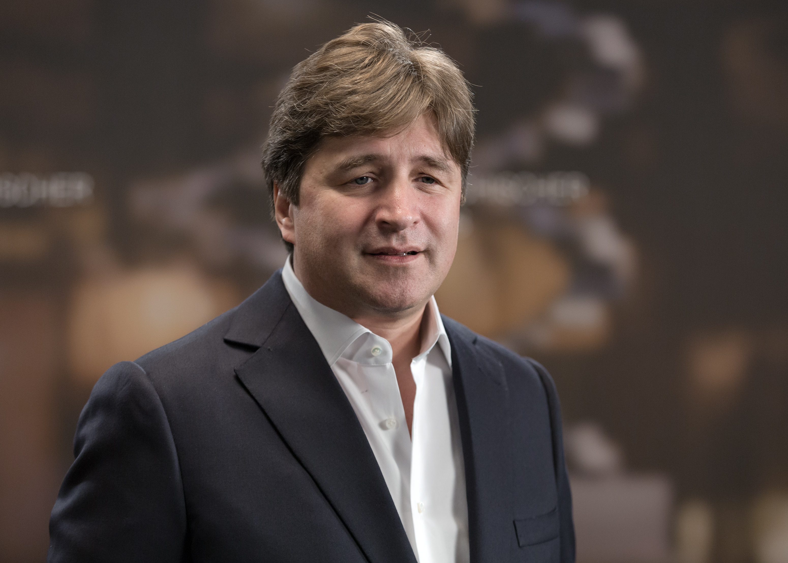 Guy Farley, composer of the film score for A Good American, at the Austrian Film Awards 2017 (Rathaus, Vienna,Austria).